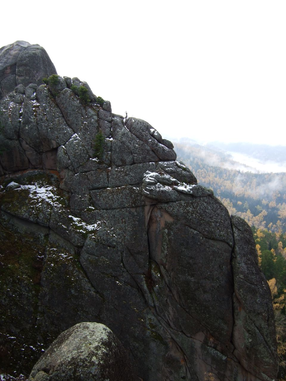 Stolby Nature Reserve, Krasnoyarsk, Russia